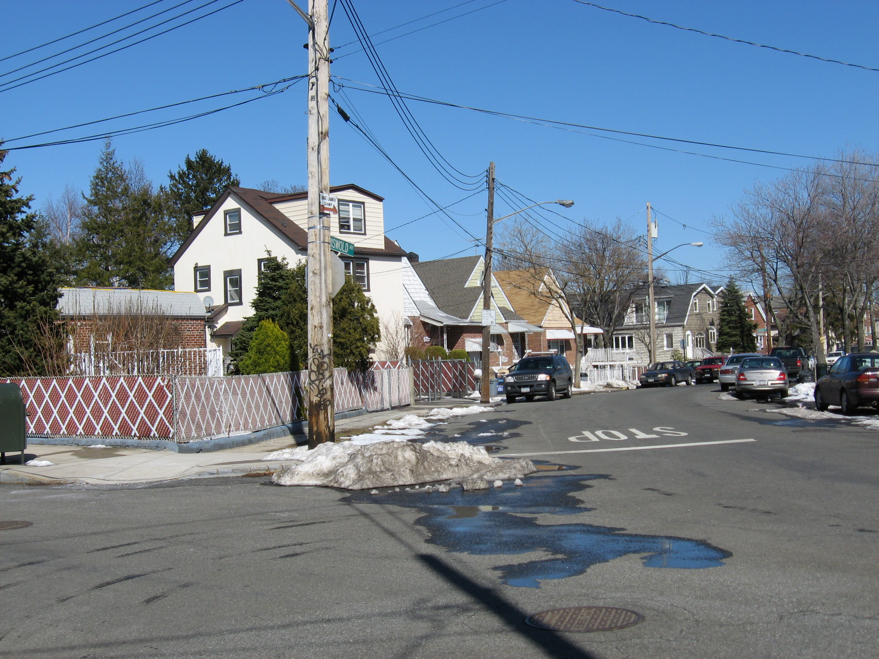 Houses at the intersection of Griswold & Research Avenues in the Country Club section of the Pelham Bay section of The Bronx.